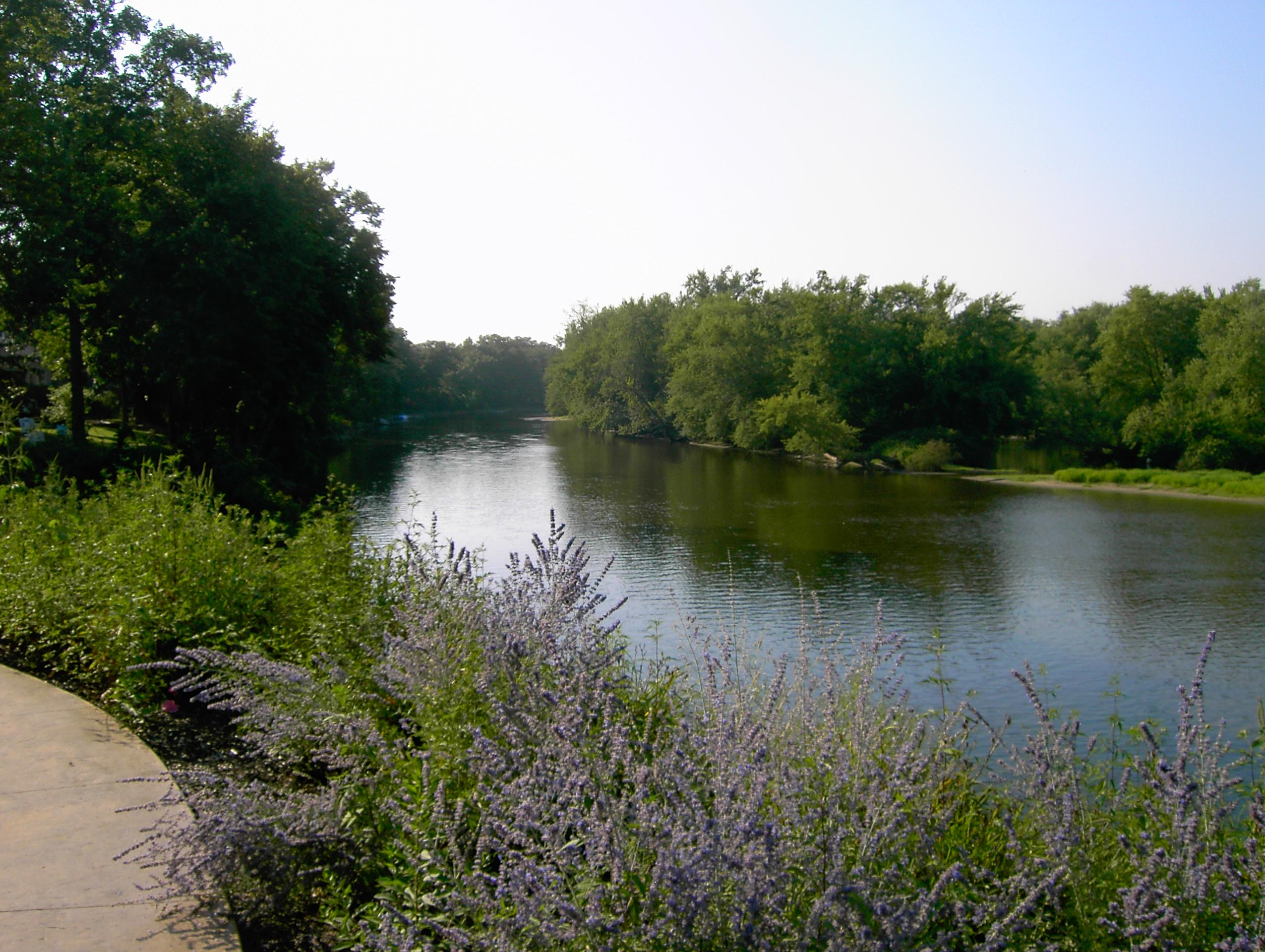 Wapsipinicon River at Independence, Iowa (Buchanan County), U.S.A.